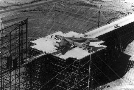 Original caption: "The facility is the largest wood-and-glue laminated structure in the world. Aircraft tested here are subjected to up to 10 million volts of electricity to simulate the effects of a nuclear explosion and assess the "hardness" of electrical and electronic equipment to the EMP pulse generated by a nuclear burst."